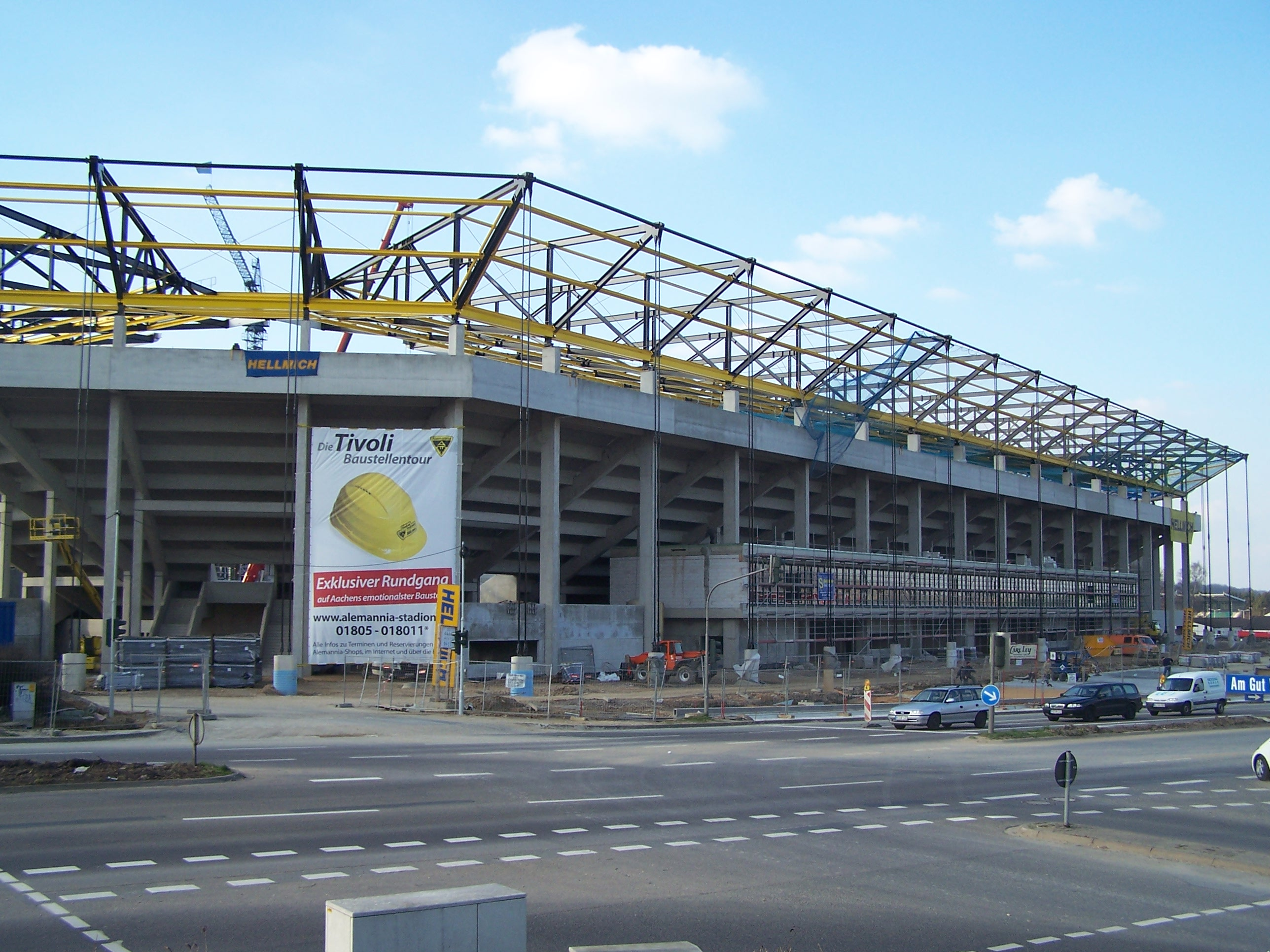 The future stadium of Alemannia Aachen (Tivoli) -- under construction